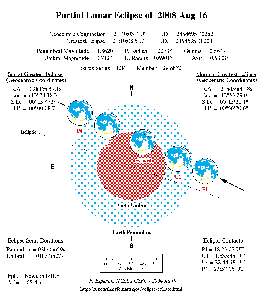 Sketch of the 2008-08-16 lunar eclipse.